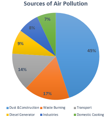 Dust and Construction contribute about 45% to the pollution in India, followed by waste burning. Waste Burning is mostly in the rural parts of the country while dust and construction works happen in the urban areas.